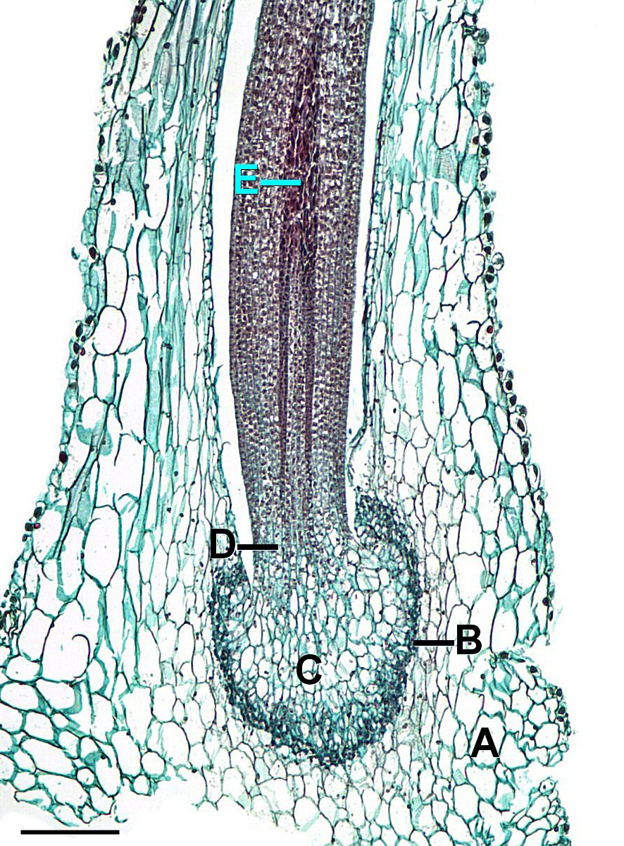 Photomicrograph of the sporophyte of Anthoceros. A-Gametophyte, B-Placental tissue, C-Foot, D-Meristematic region, E-Young sporogenous and elater tissue. Scale=0.2mm.